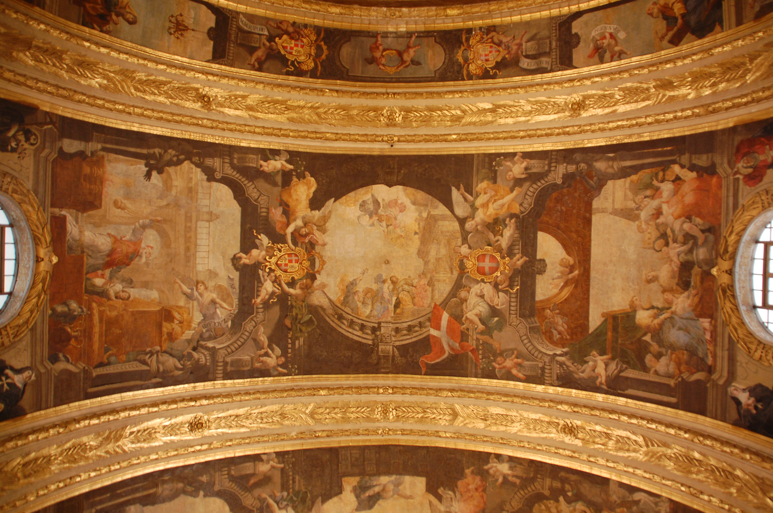 Detail from St John's Co-Cathedral, Valletta, Malta